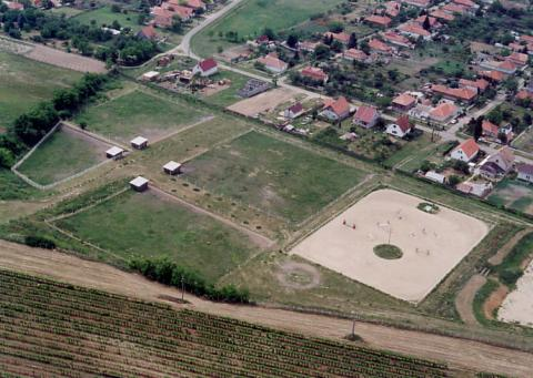 Ceglédbercel, Hungary, aerial photography